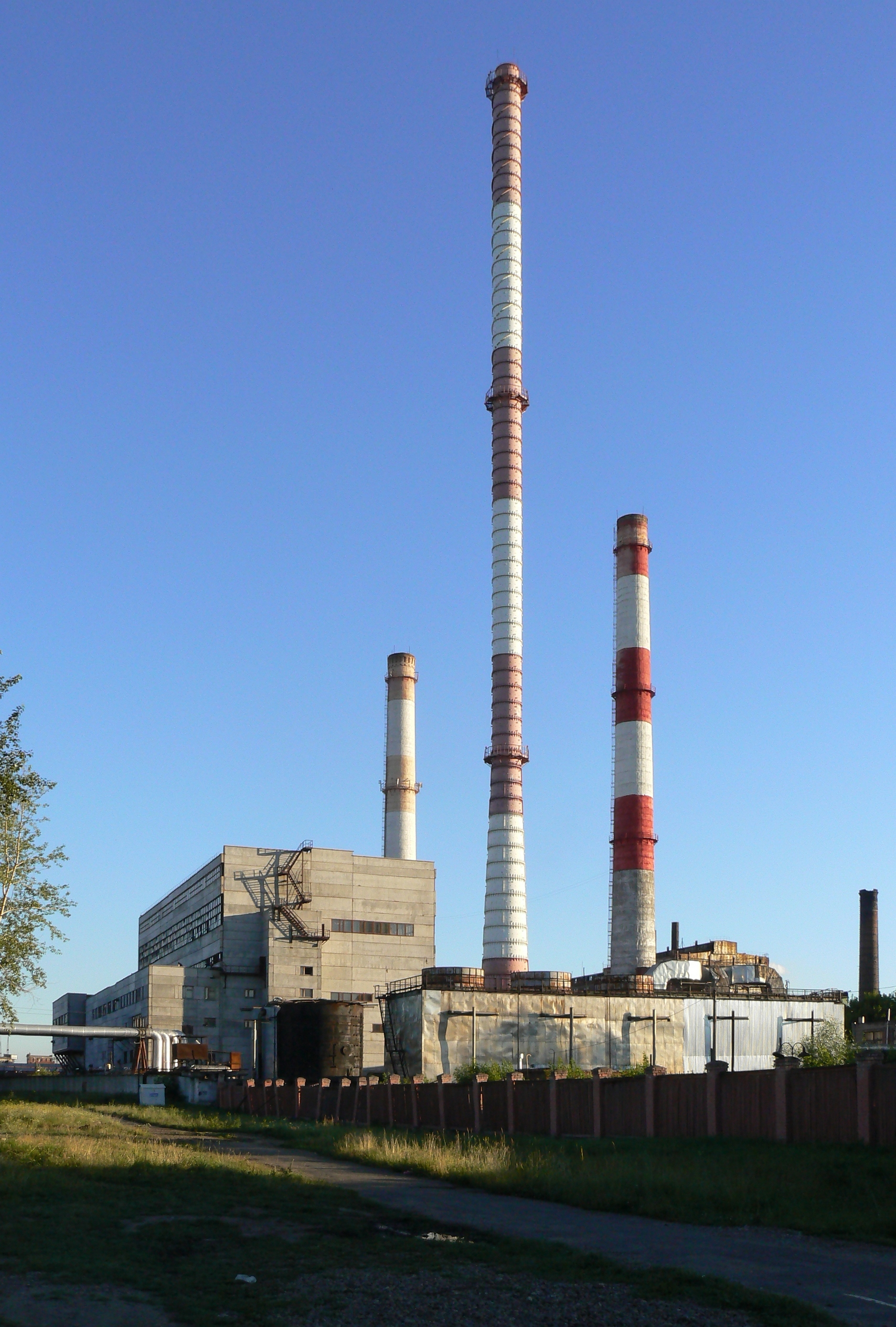 Thermal Power Station #6 in Perm (Perm CHP-6).